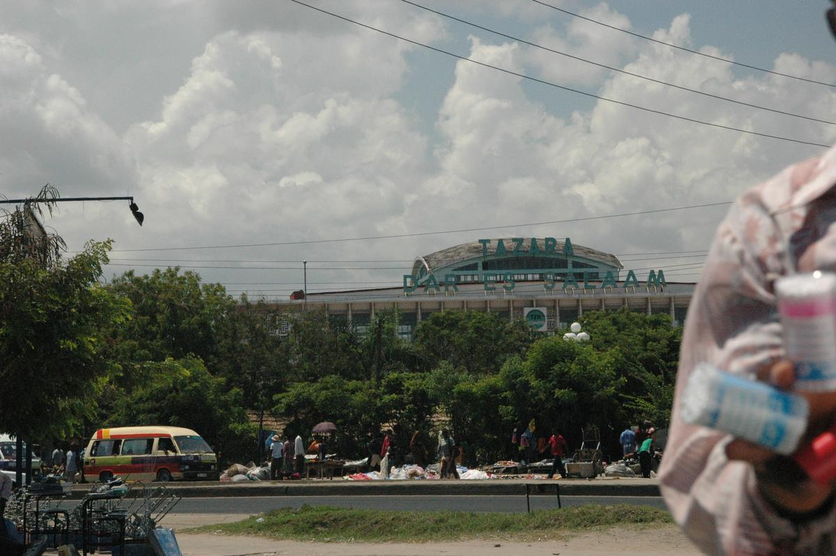 Dar Es Salaam's TAZARA Railway station